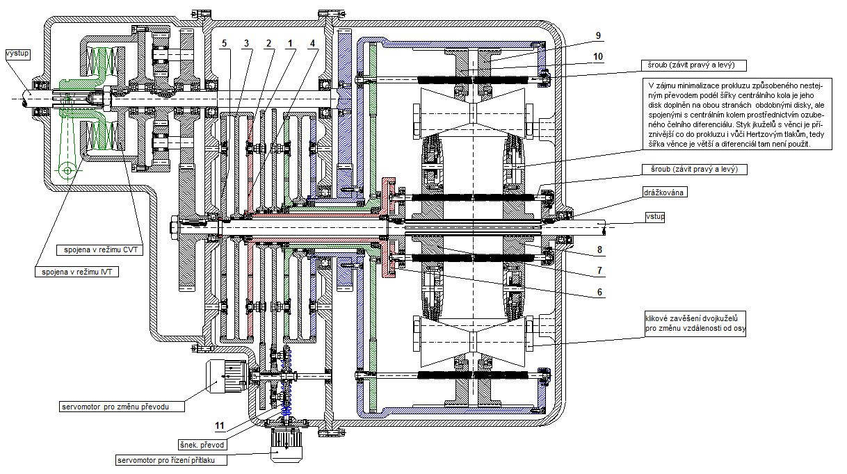 Infinitely Variable Transmission